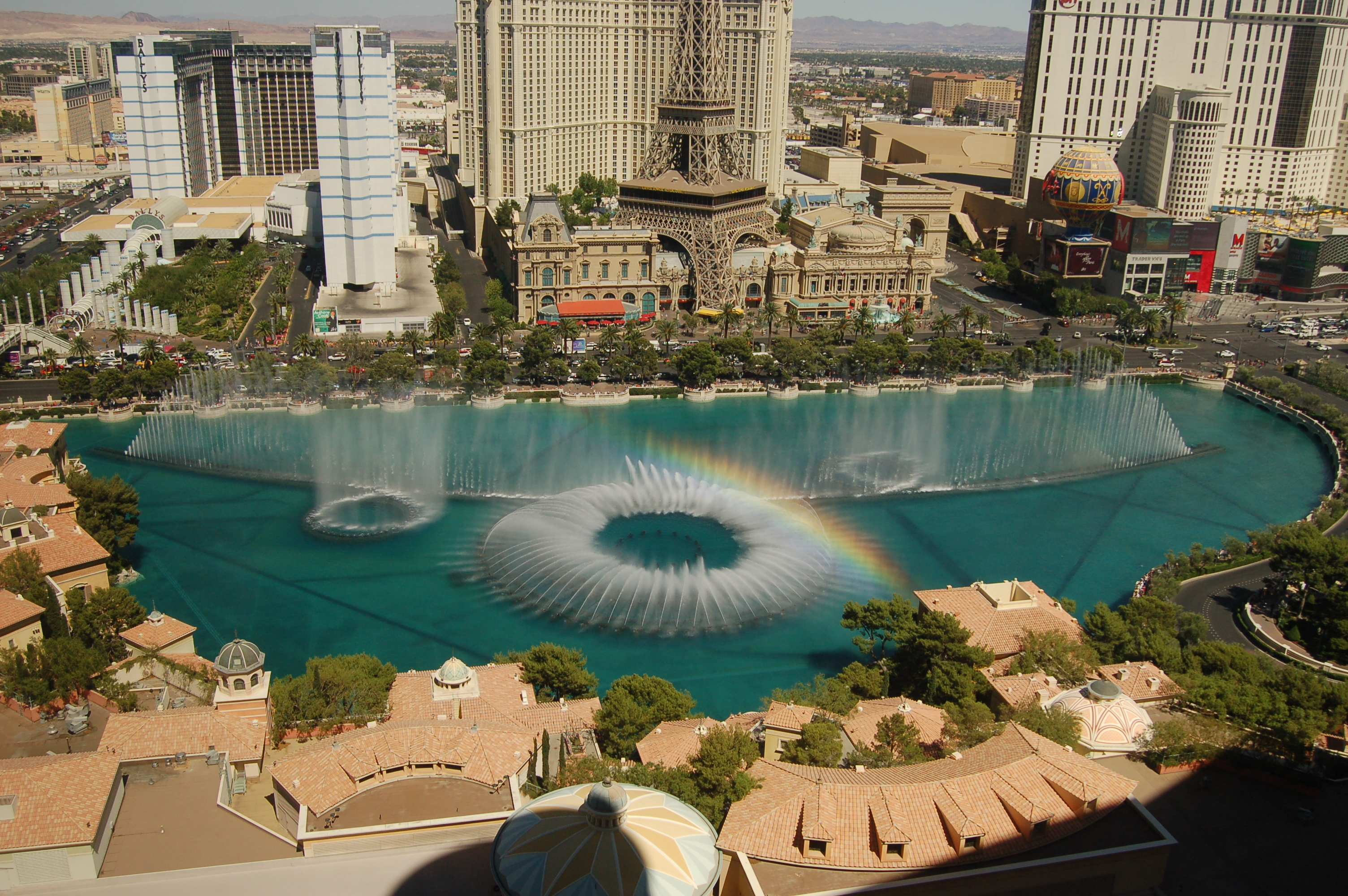 Fountains and Rainbow @ Bellagio, Las Vegas